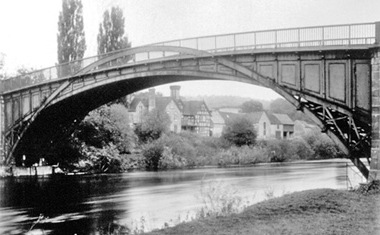 Buildwas Iron Bridge, Buildwas, England. Image shows "Image:Freebase/Fair use"